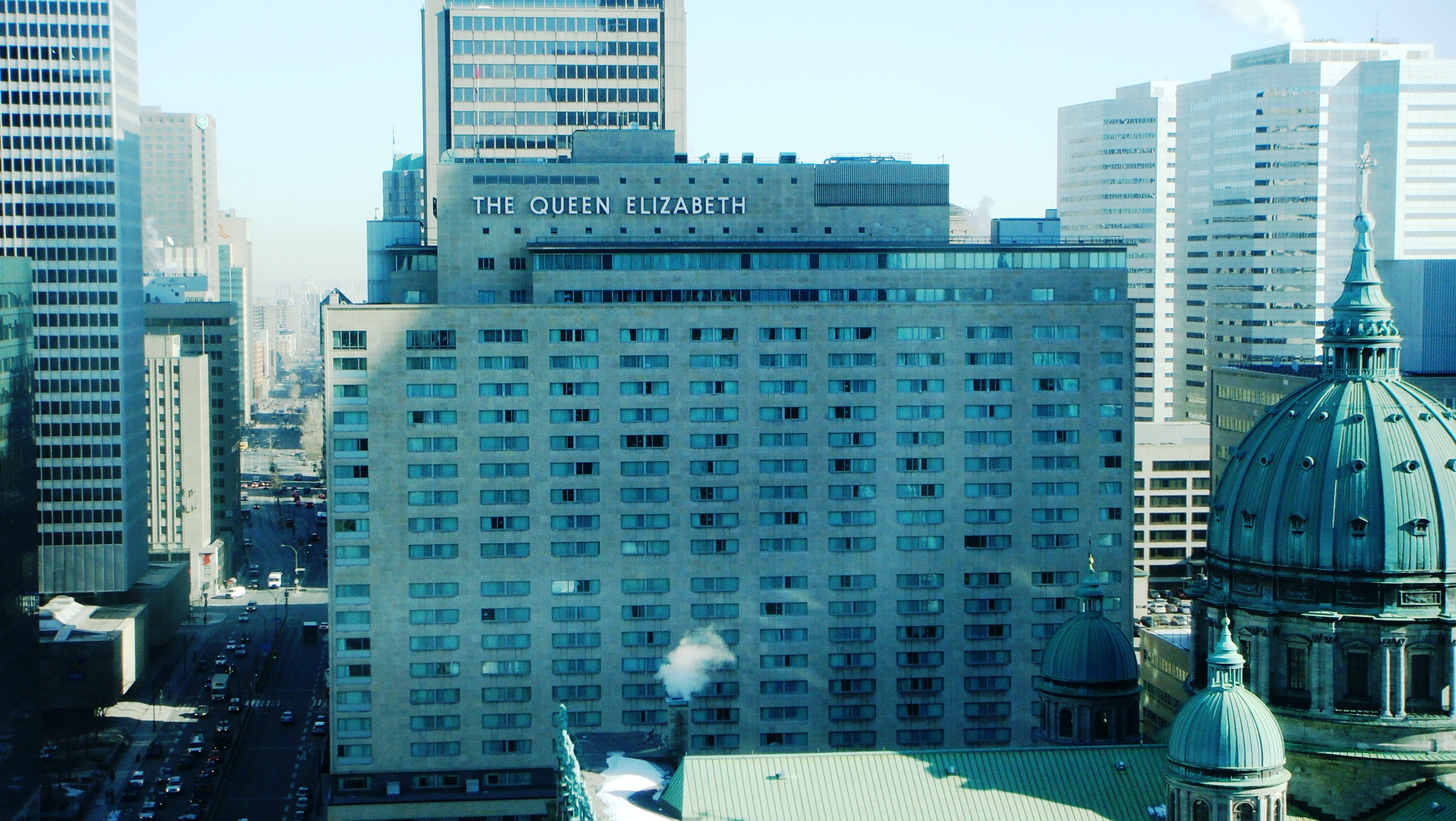 Queen Elizabeth Hotel, Montreal, Quebec, Canada